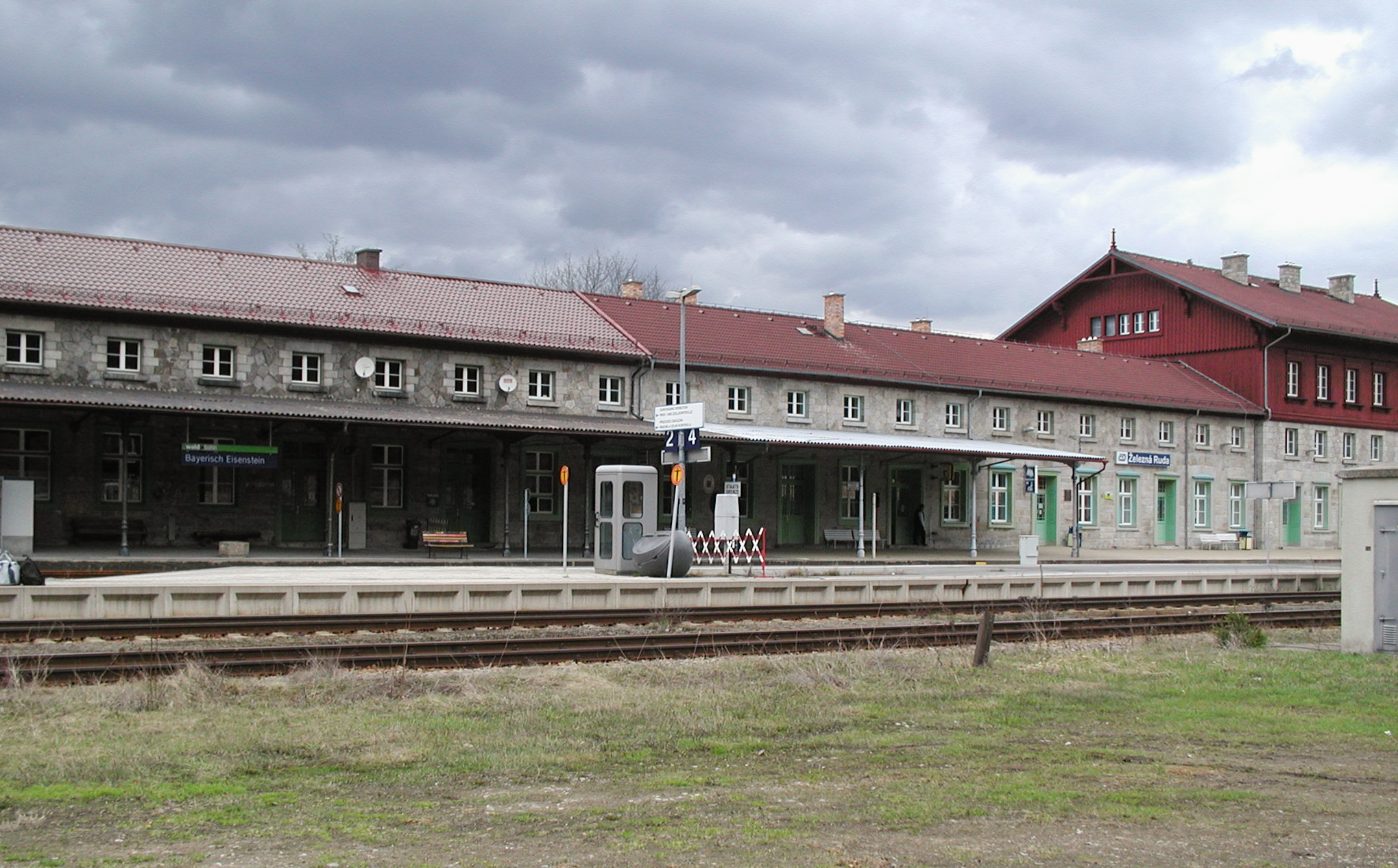 Bayerisch Eisenstein/Železná Ruda-Alžbětín train station building from south-west.